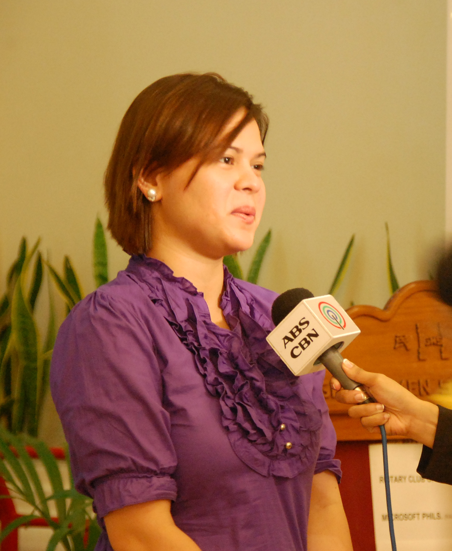 Sara Duterte-Carpio, Davao City Vice-Mayor 2007-2010, Mayor 2010